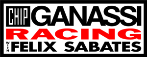 Chip Ganassi Racing logo